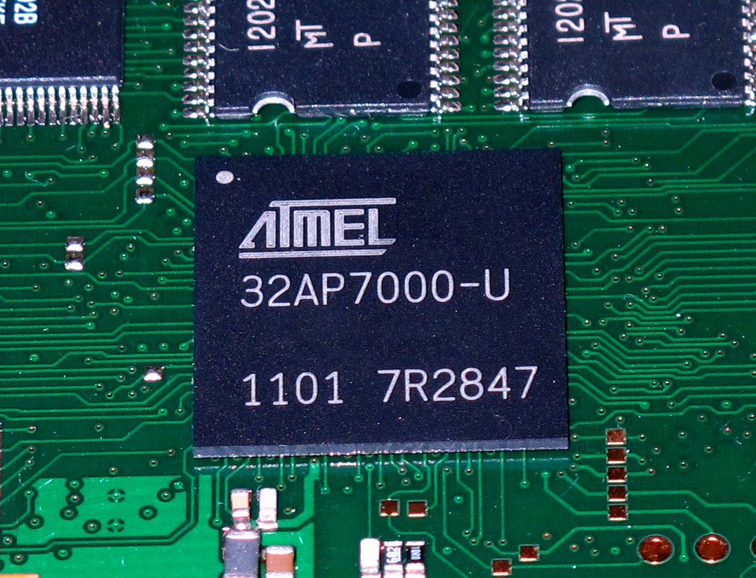 AVR32 (AP7000) Chip. A 32-bit RISC microprocessor designed by Atmel